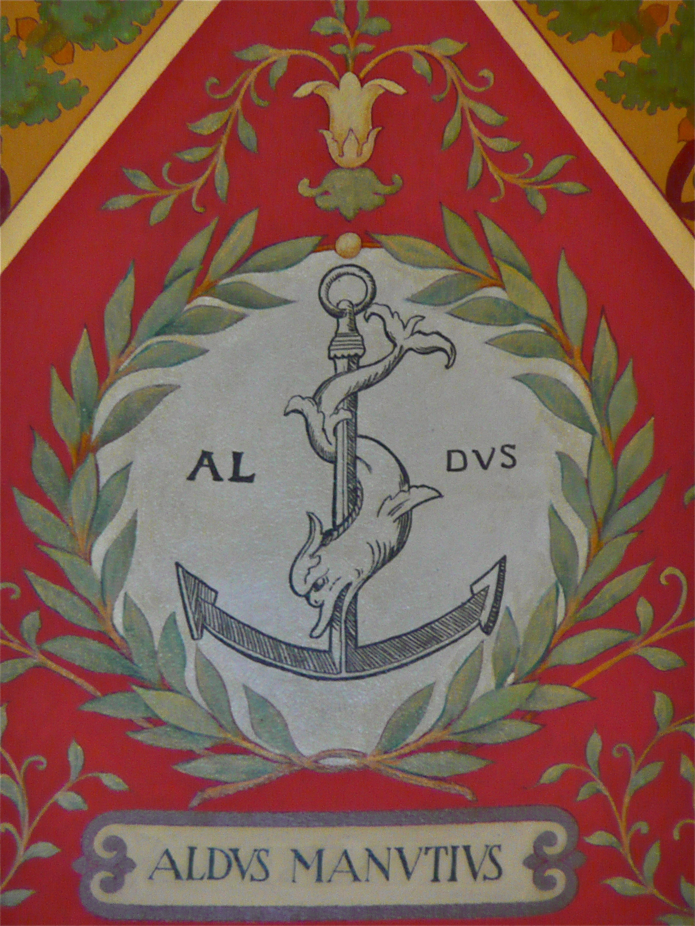 Aldus Manutius. From ceiling of the Great Hall of the Library of Congress. Photo taken at the LOC 2012 Flickr Photo Meetup